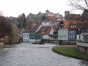 The historical town of Kronach with the Hasslach river in front